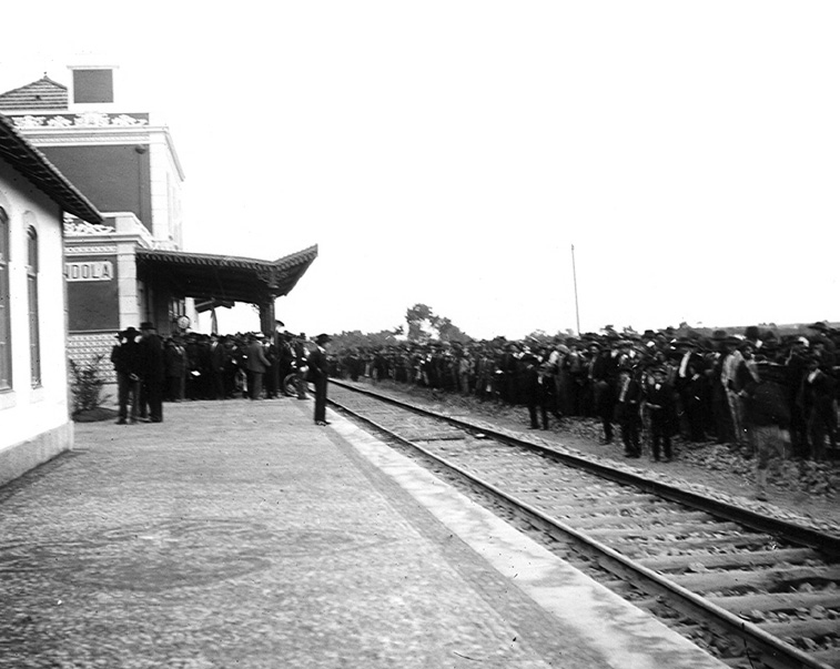 Inauguration of the Grândola railway station, in Portugal, on the 22nd October 1916. This image was taken from the work "Roteiro Republicano da Vila de Grândola", published by the Câmara Municipal de Grândola in 2010.